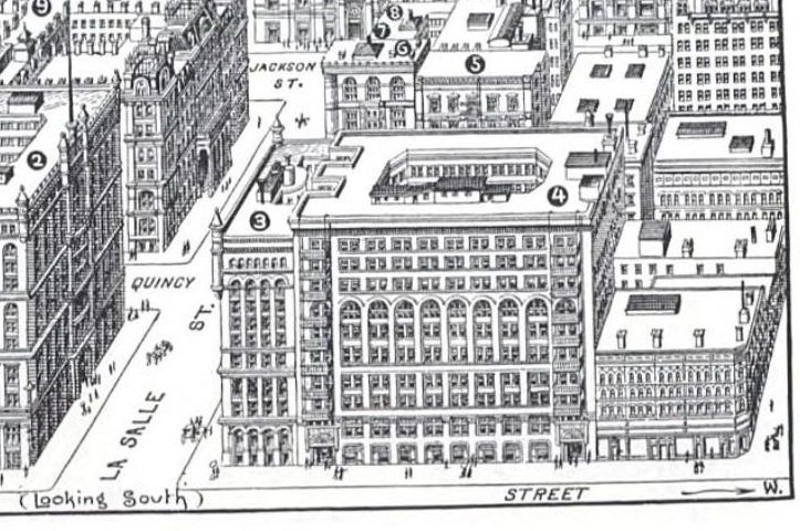 The 1889 RandMcNally building (shown as #4) in Chicago on Adams St. between Wells and Quincy. Demolished 1911. From Rand McNally "bird's eye views" from 1890s guides.